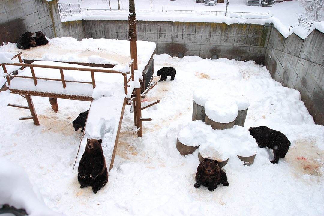 Showa shinzan kumabokujo. Sobetsu-town, Hokkaido, Japan.